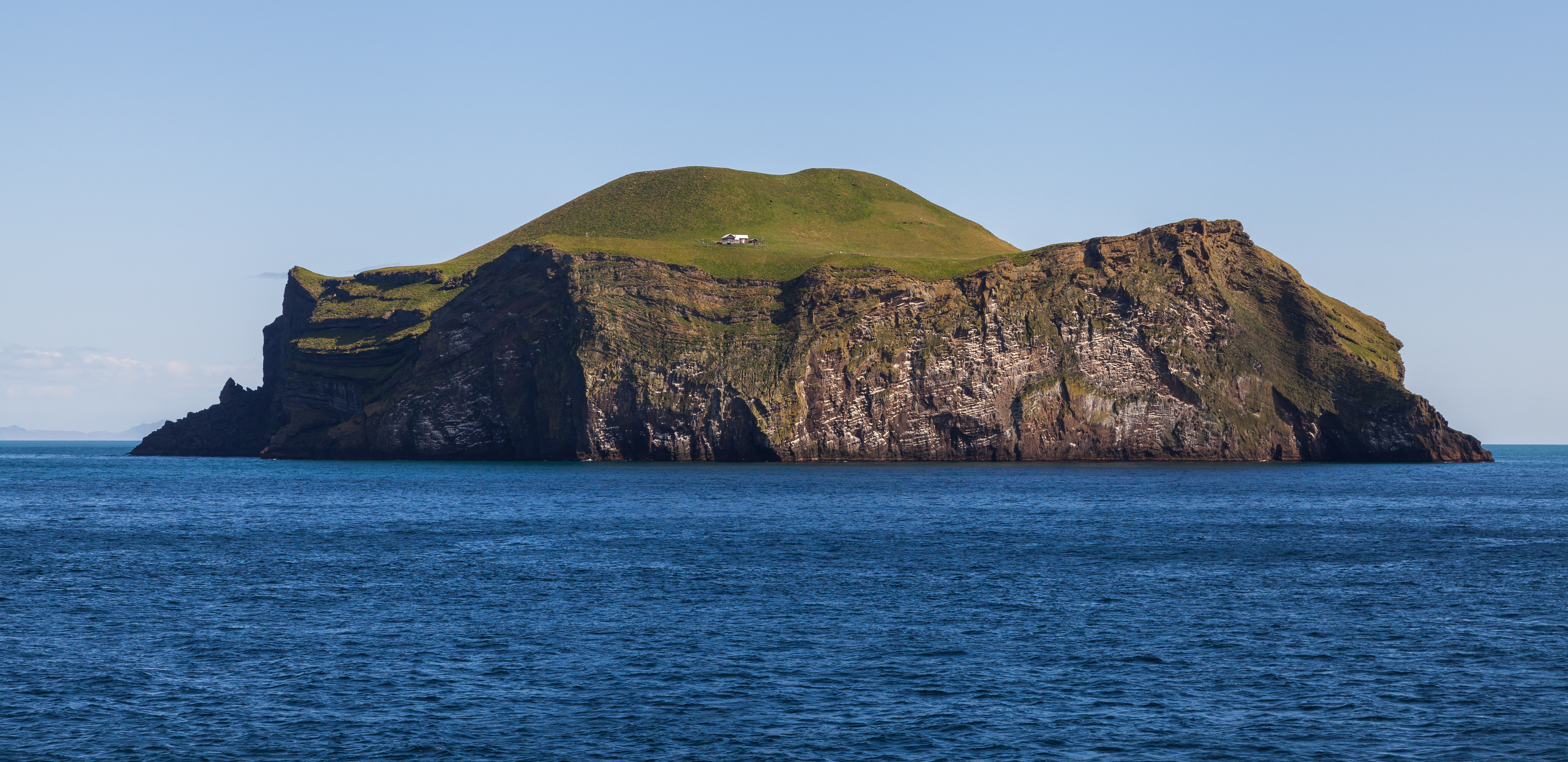 Bjarnarey island, Westman Islands, Suðurland, Iceland